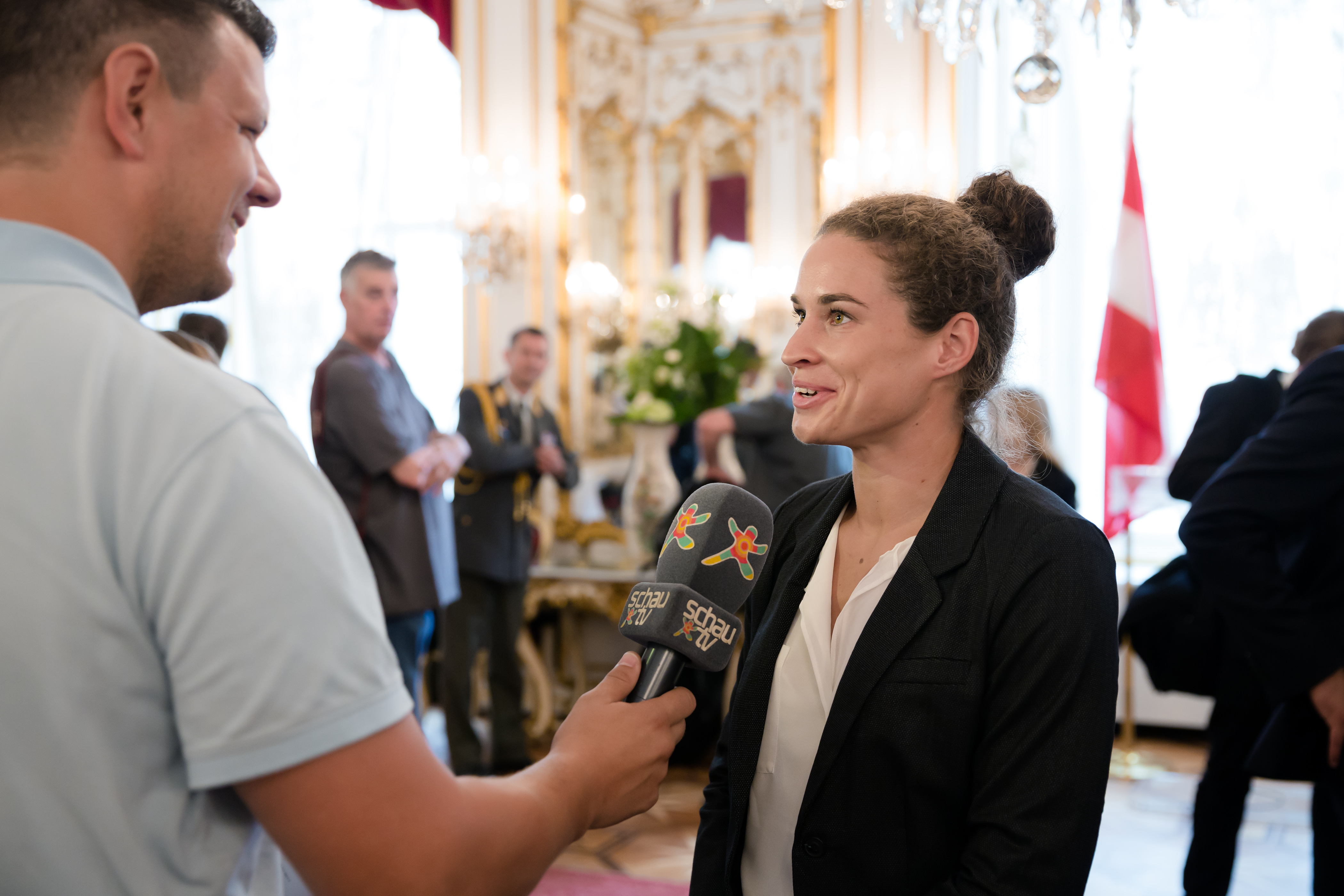 Nina Burger at the reception of the Austrian women's national football team for the UEFA Women's Euro 2017 by federal president Alexander Van der Bellen at Hofburg in Vienna, Austria.